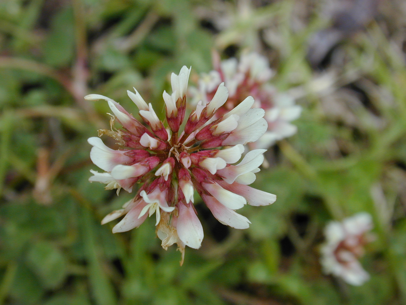 Trifolium repens (flower). Location: Maui, Polipoli